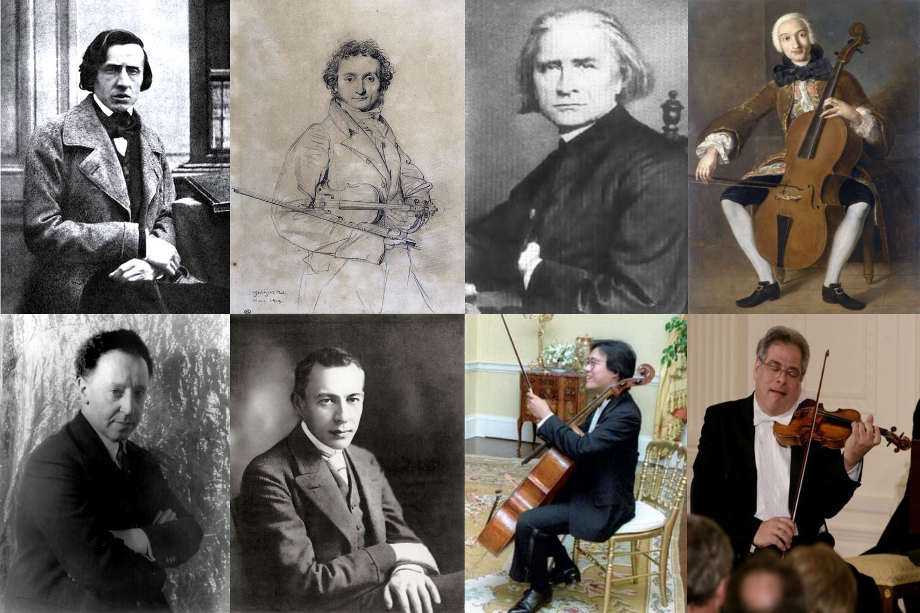 Montage/ Collage created by me of public domain files on the commons of various musical Virtuosi. This is intended for the Wikipedia page "Virtuoso".